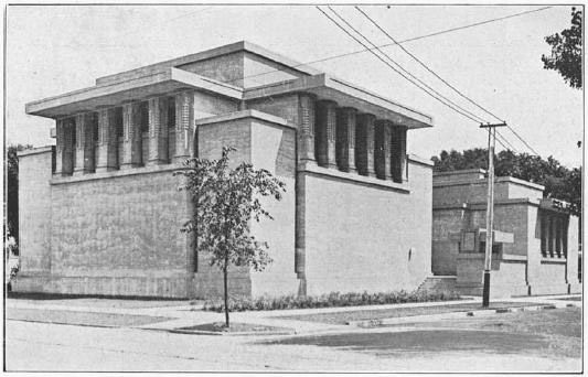 Anonymous. Unity Church [sic]. c 1920 (?). Photo. From Theo van Doesburg. Classique-Baroque-Moderne. Anvers: De Sikkel, [1921].